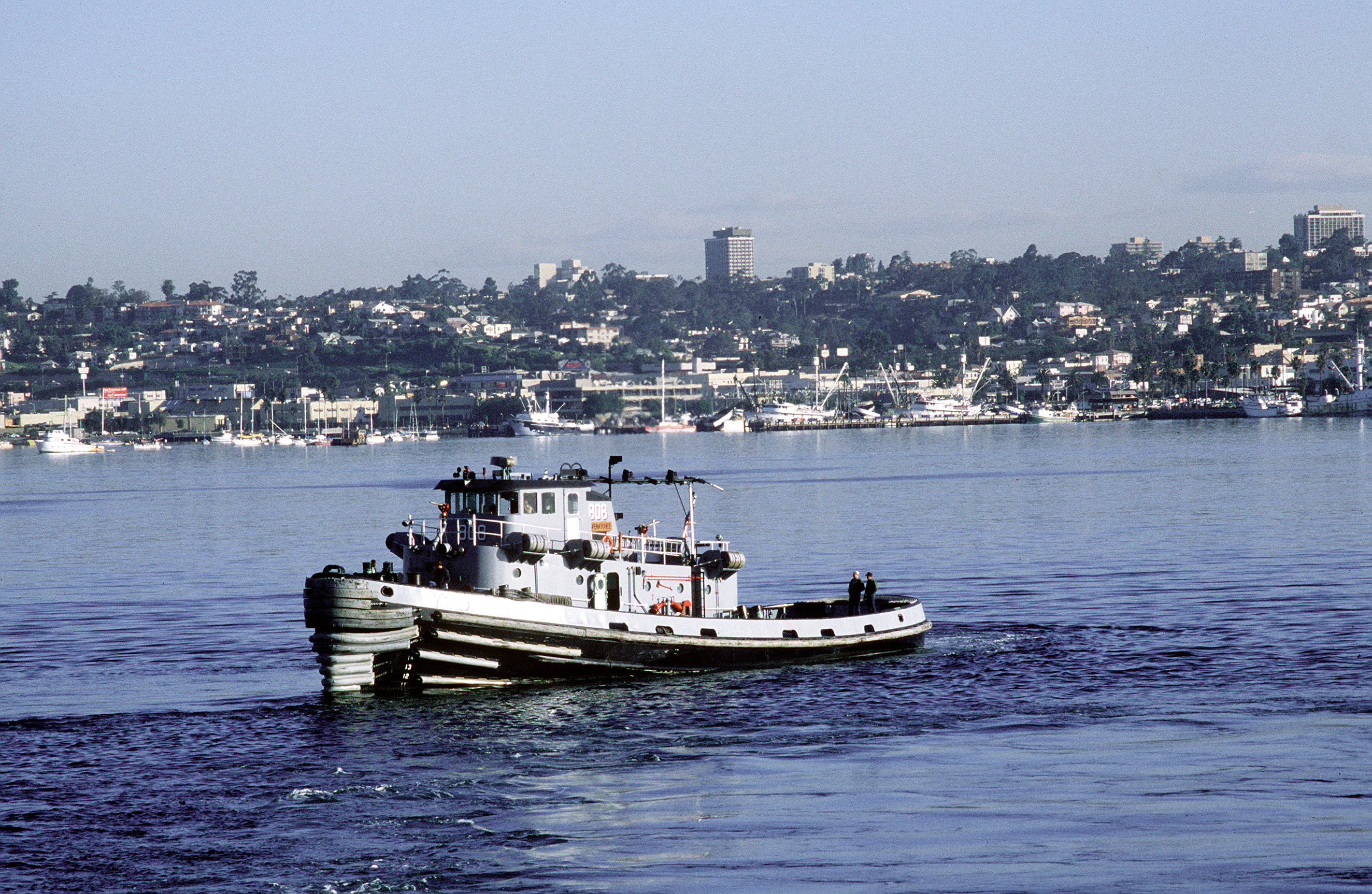 Wenatchee (YTB-808) underway in San Diego harbor, 14 December 1984 DVIC photo # DN-ST-87-09091by PH3 Davidson.